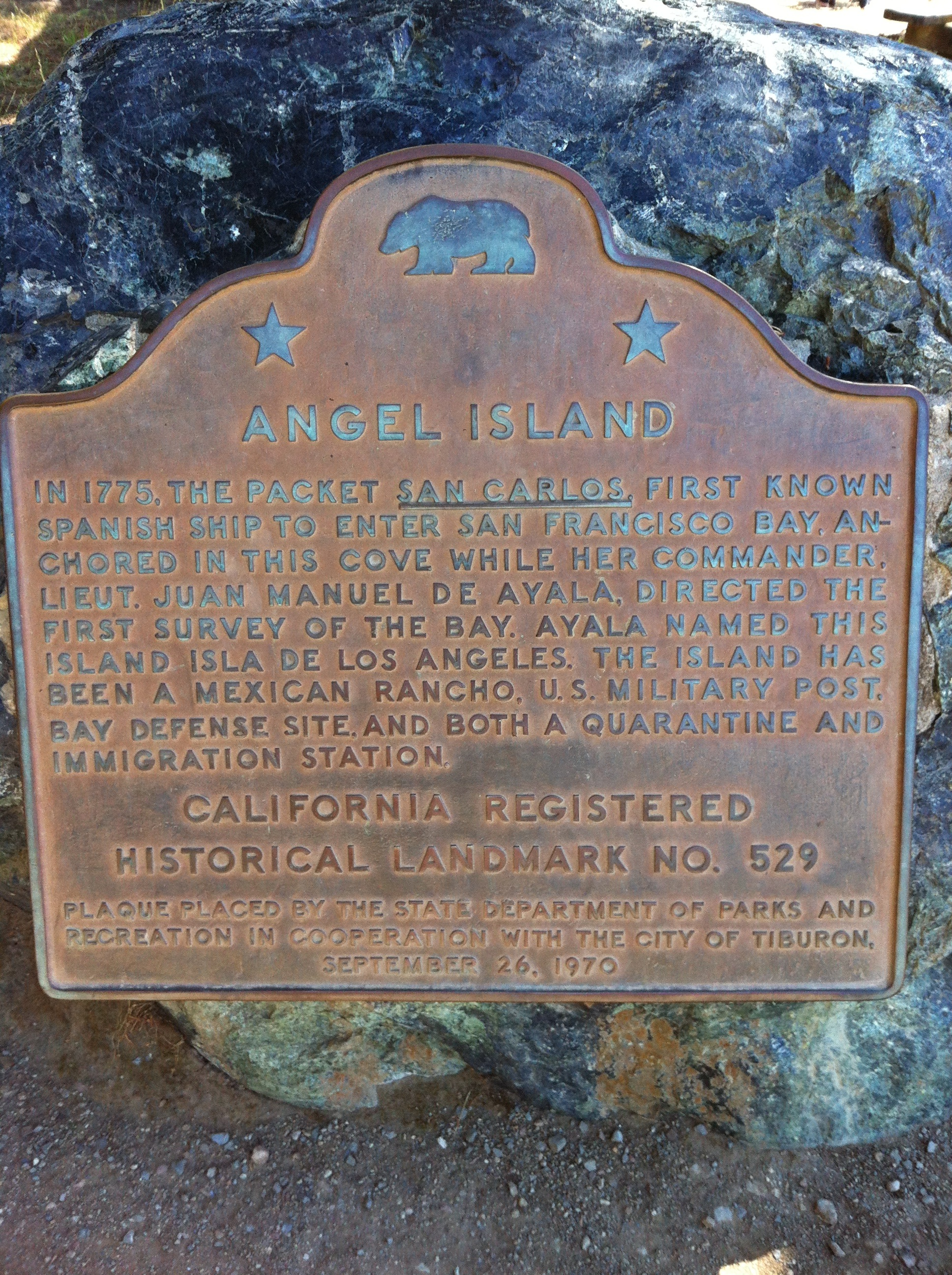 Angel island, Bay Area California